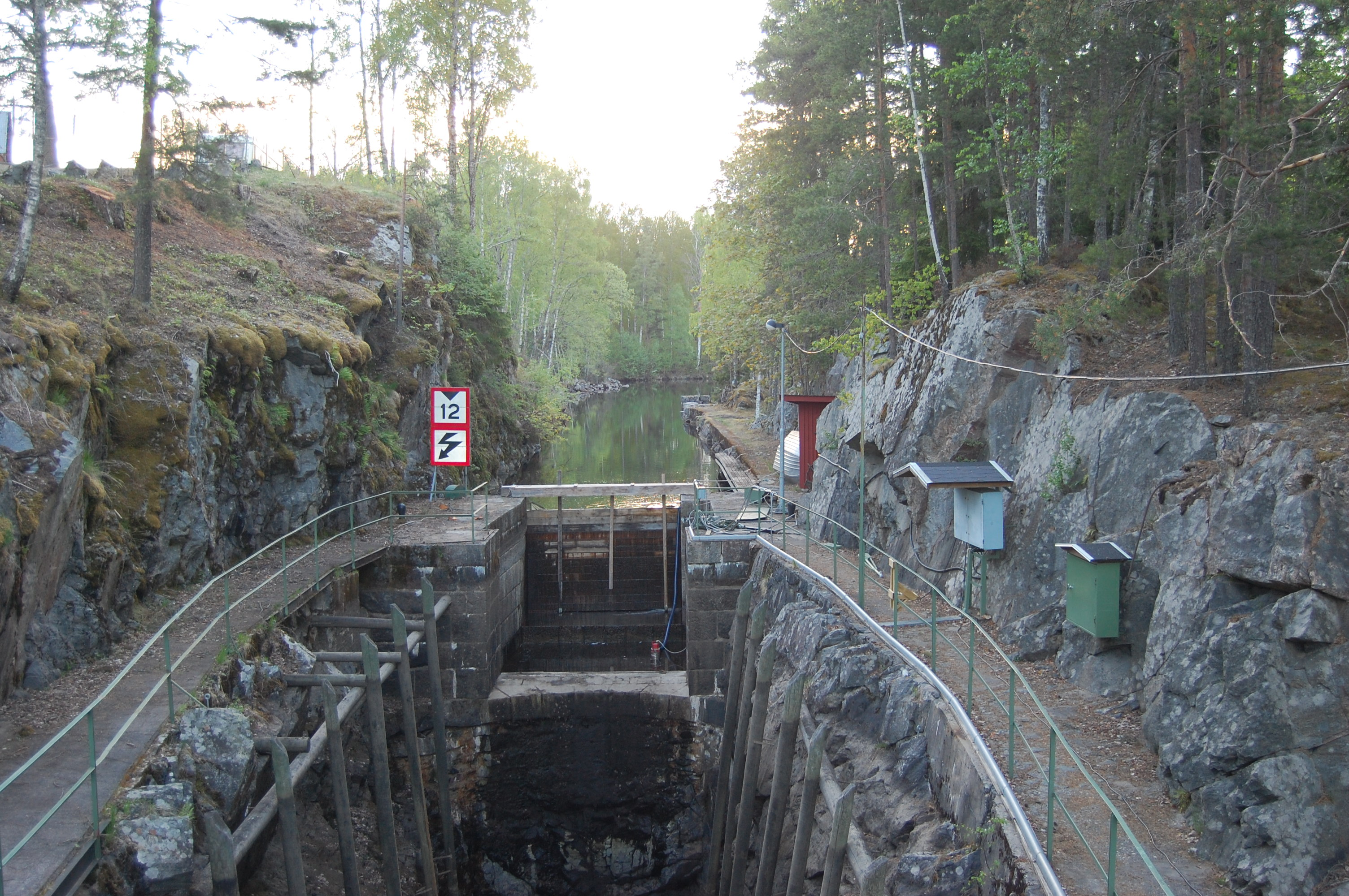 Nedre Slussen Töcksfors